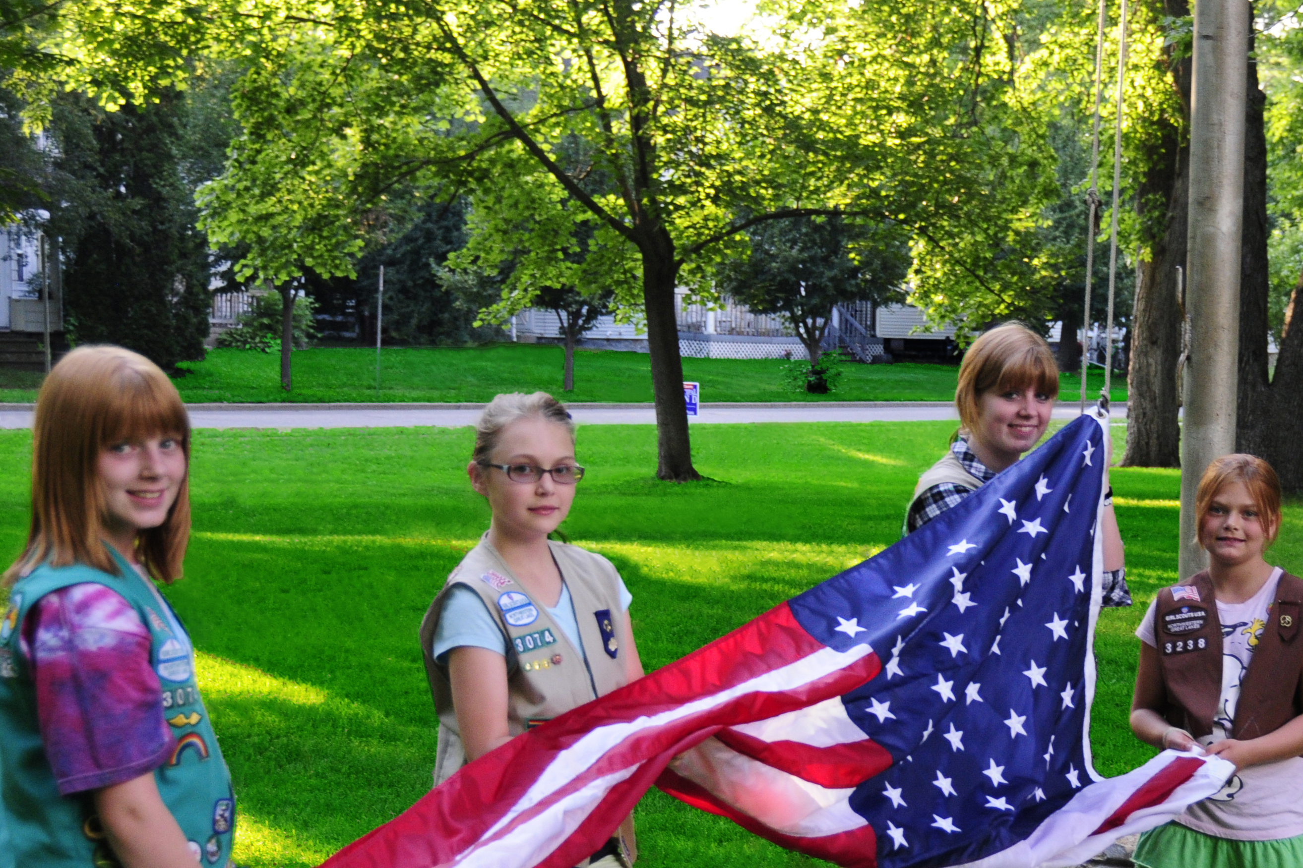 Girl Scouts raising the American flag, Owen Park in Eau Claire, Wisconsin at a Municipal Band concert Previously published: picasa